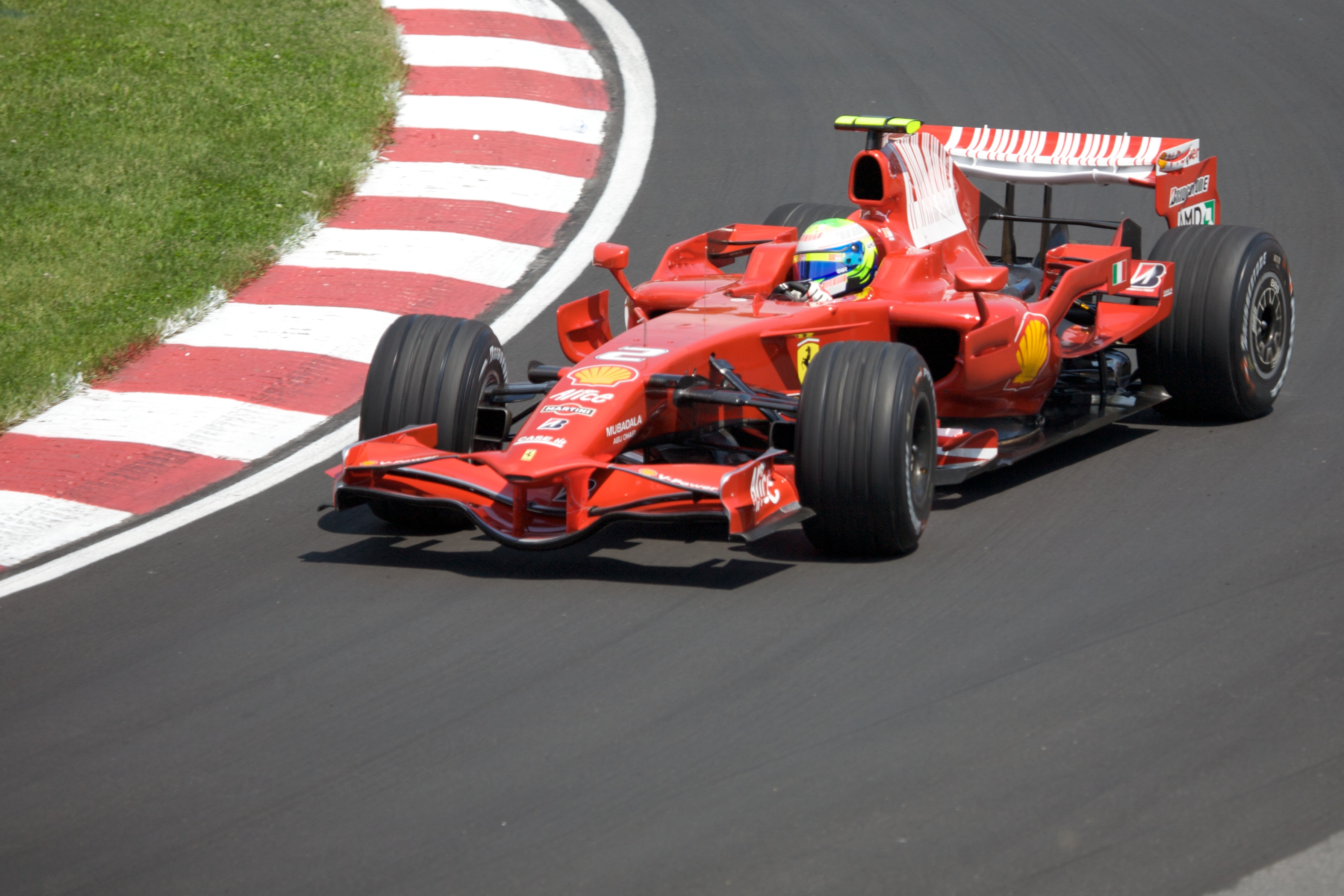 Felipe Massa driving for Scuderia Ferrari at the 2008 Canadian Grand Prix.